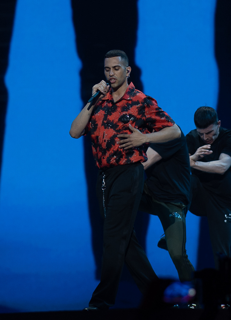 Italian singer-songwriter Mahmood at the 2019 Eurovision Song Contest Grand Final Dress Rehearsal.